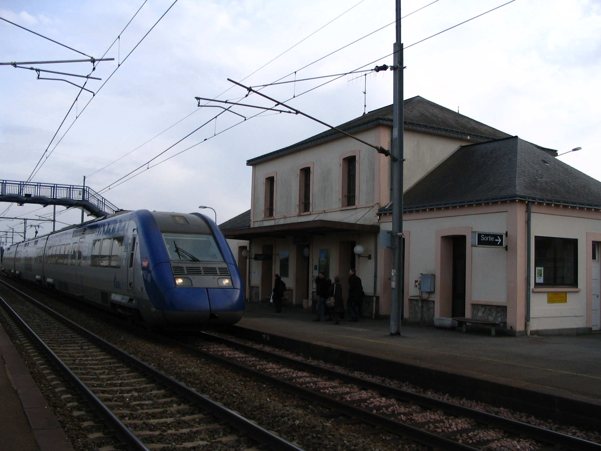 The train station of Évron, Mayenne, France.